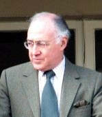 Michael Howard, former United Kingdom Home Secretary and Head of the Conservative Party from November 2003 to December 2005.